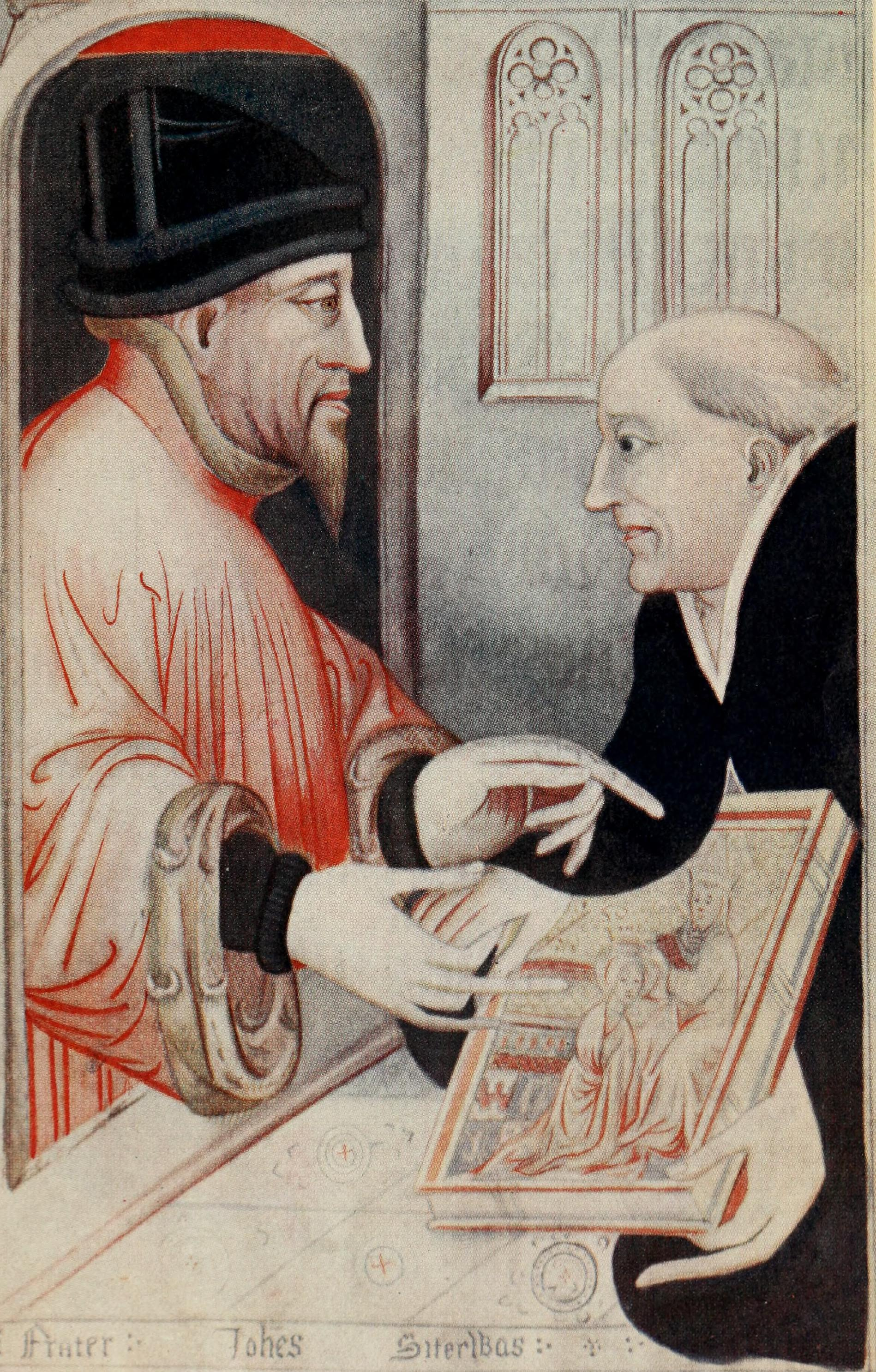 Title: The old service-books of the English Church Year: 1904 (1900s) Authors: Wordsworth, Christopher, 1848-1938 Littlehales, Henry, 1859- Subjects: Church of England Liturgies, English Publisher: London : Methuen Text Appearing Before Image: ' Text Appearing After Image: Rat-her less hhan /4 Full Size The last pageofthefifteenth century Gospel Book, Brit. Mus MS Harl 7026. BOOKS FOR THE MASS : GOSPEL-BOOK 201 One of the coloured plates in our own volume is afacsimile, except as regards size, of one side of leaf 4of this MS. From the text on the reverse and the twolines above the picture it is almost certain that thispage was originally the last of the book when perfect.The picture represents the finished volume being handedto the donor, Lord Lovel, by whom it was orderedto be made for the cathedral. The inscription written inthe ornament on the inner margin of the page explainsby whom the book was given and for what purpose.Lord Lovel owned and lived at Wardour Castle, not farfrom Salisbury ; he died in 1408. Our plate of grotesques supplies an interesting exampleof a grotesque ornament from the margin of one of thepages of this book. Such incongruities of ornament areby no means uncommon in the marginal decoration ofservice-books. (See pp. 299, 300